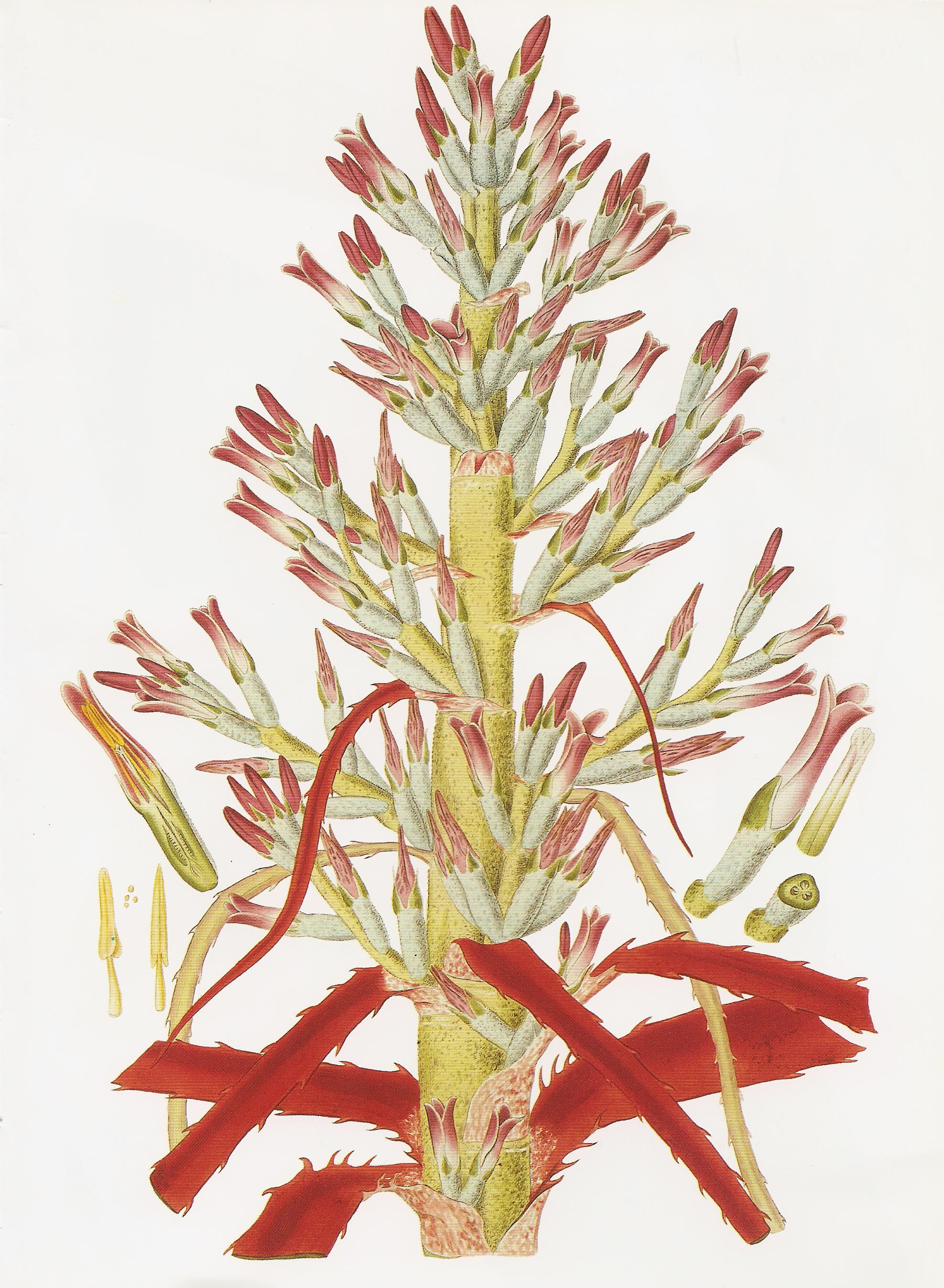 Now known as Bromelia anticantha, this plant was named B. fastuosa by John Lindley. The hand-coloured engraving after a drawing by Lindley is from his Collectanea botanica (1821).